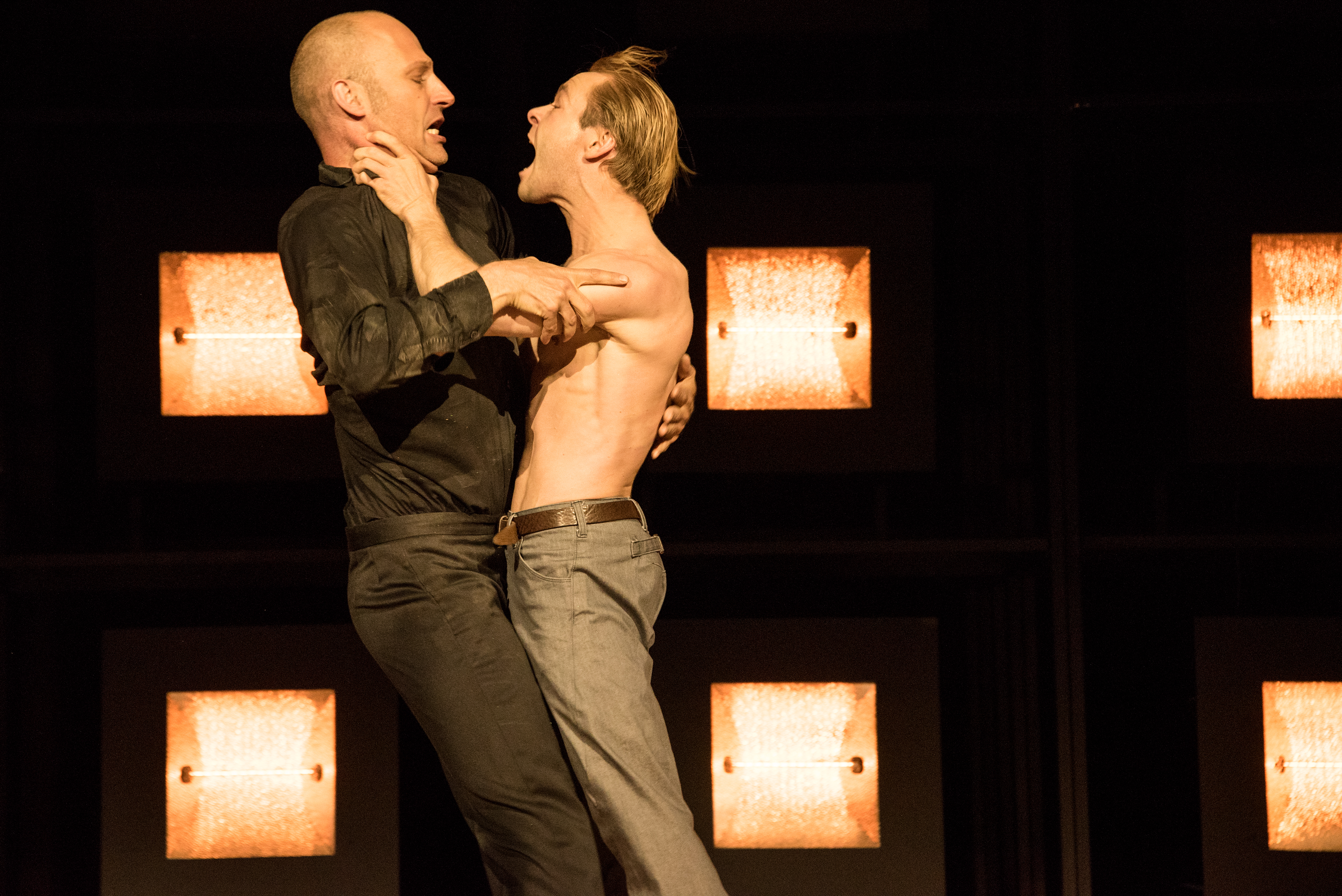 Joachim Meyerhoff, Mirco Kreibich, Antigone, Burgtheater Wien, 2015